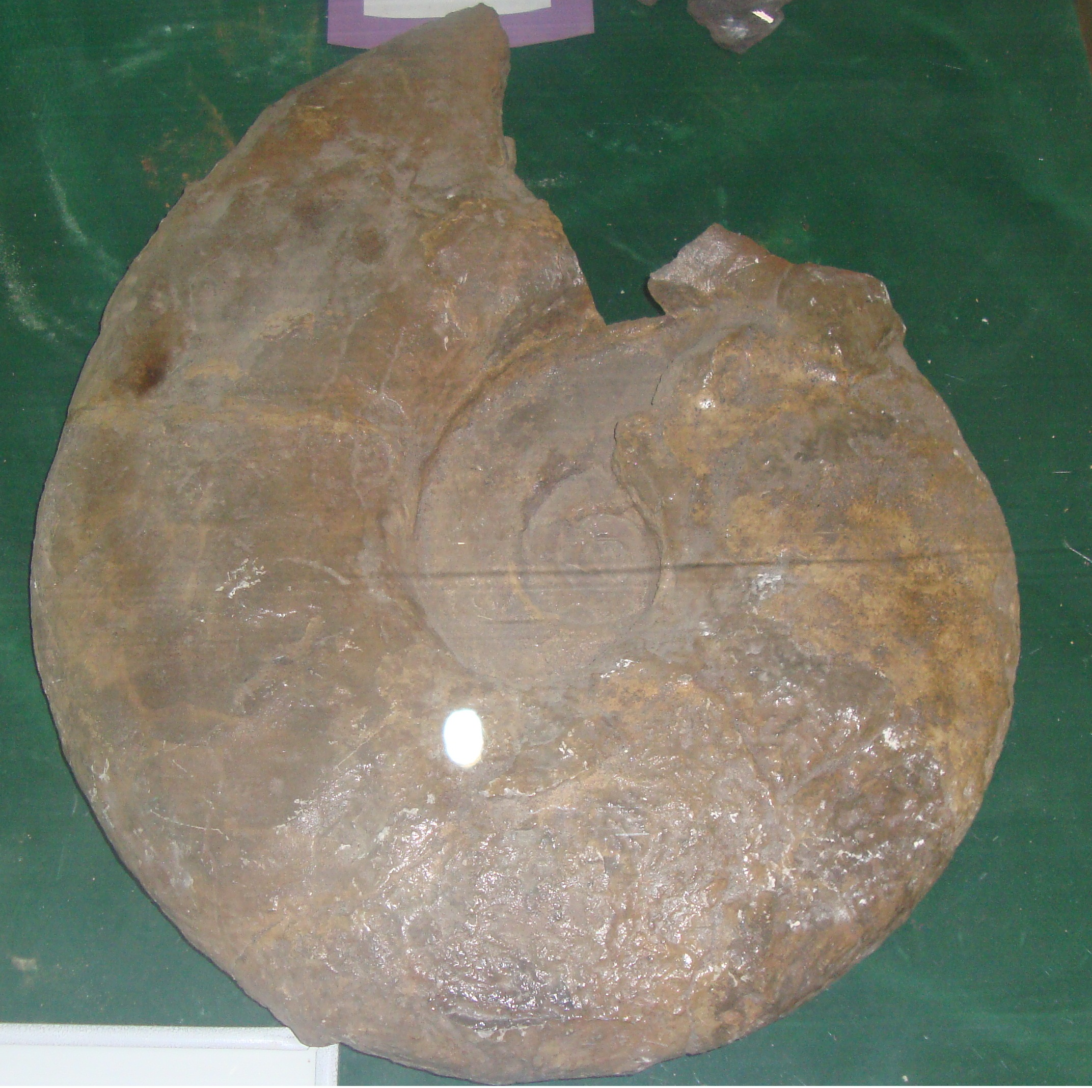 Largest Ammonoidea in Iran